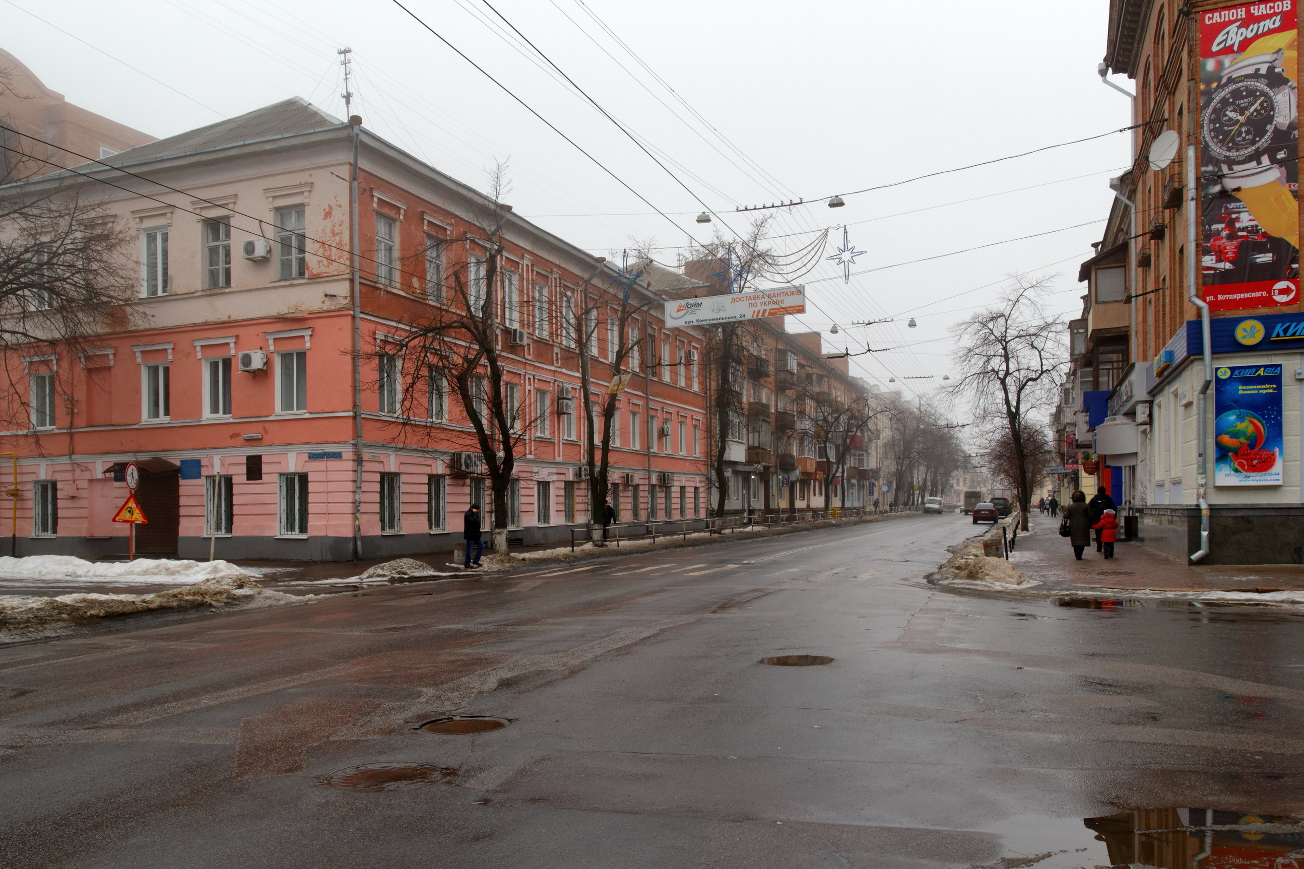 Poltava